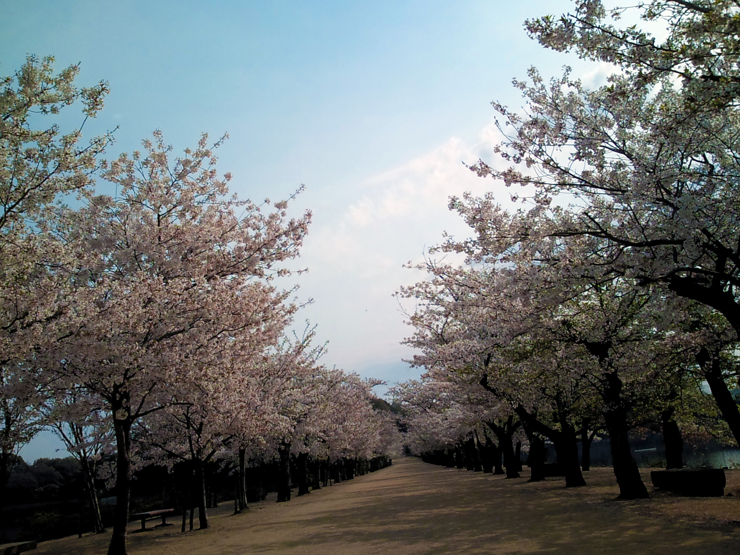 Cherry blossoms of Kikaku Park. (No Bonbori)